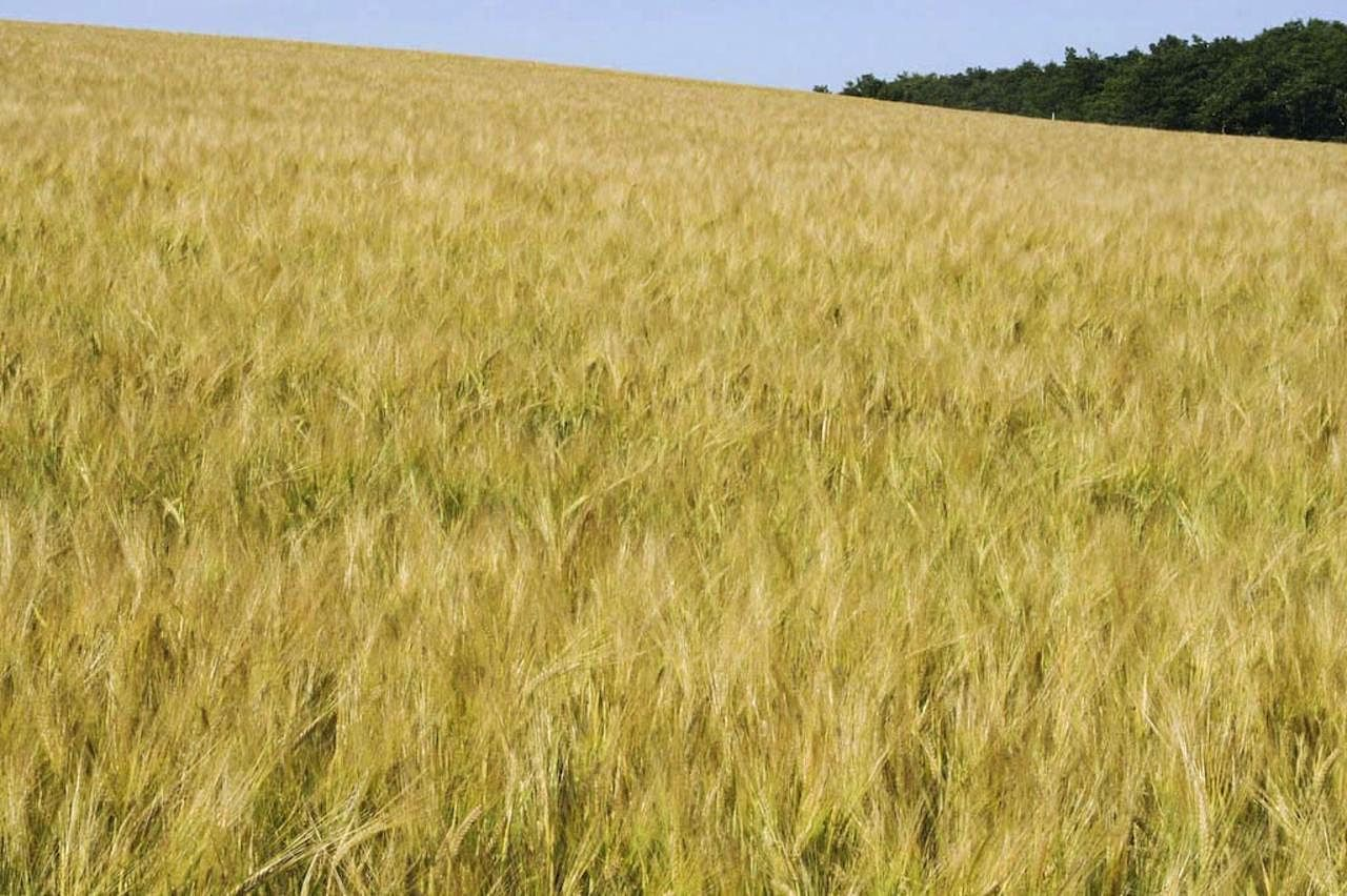 Image title: Mature grain Image from Public domain images website